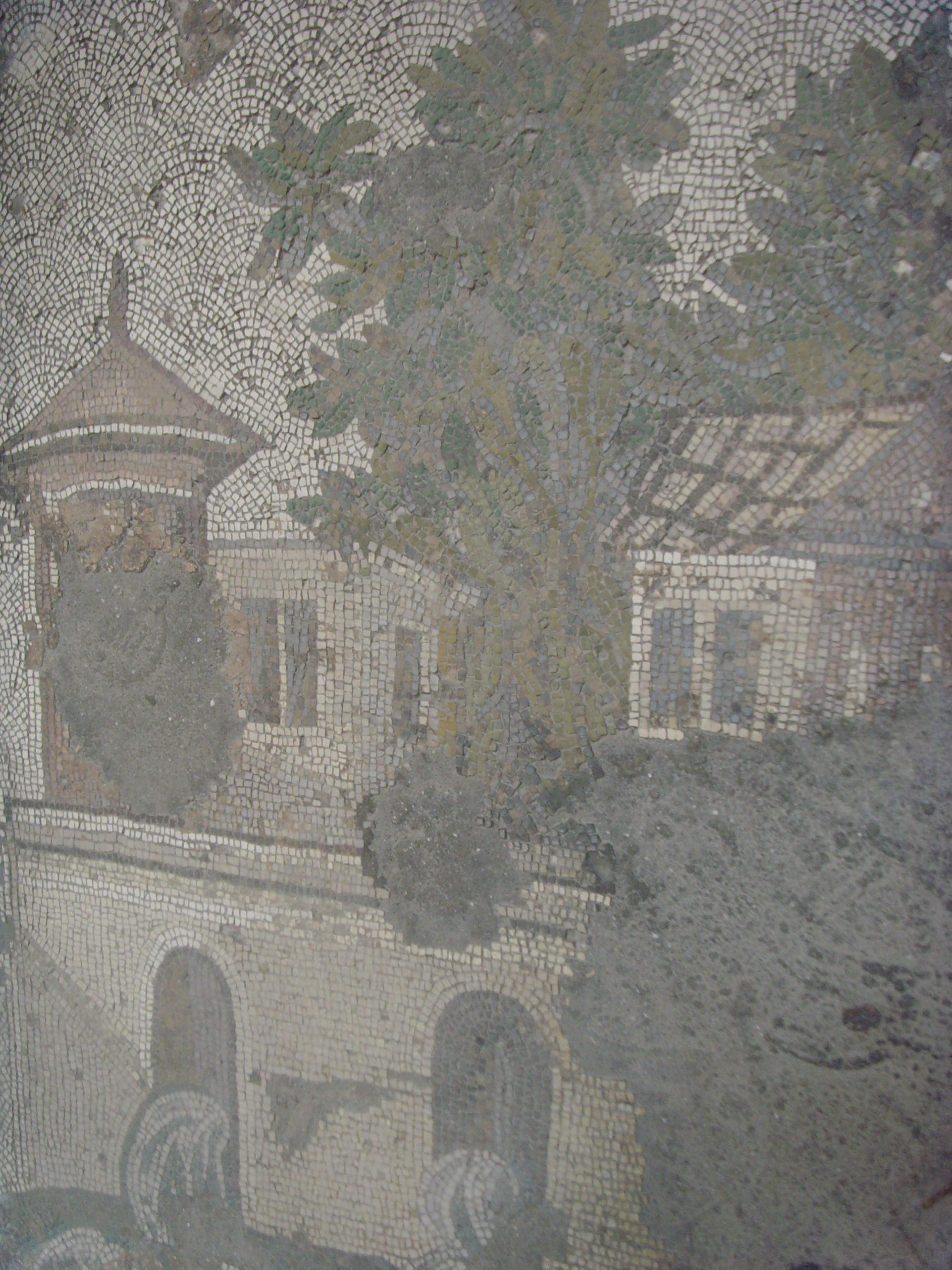 Water cistern mosaic at the Great Palace Mosaic Museum